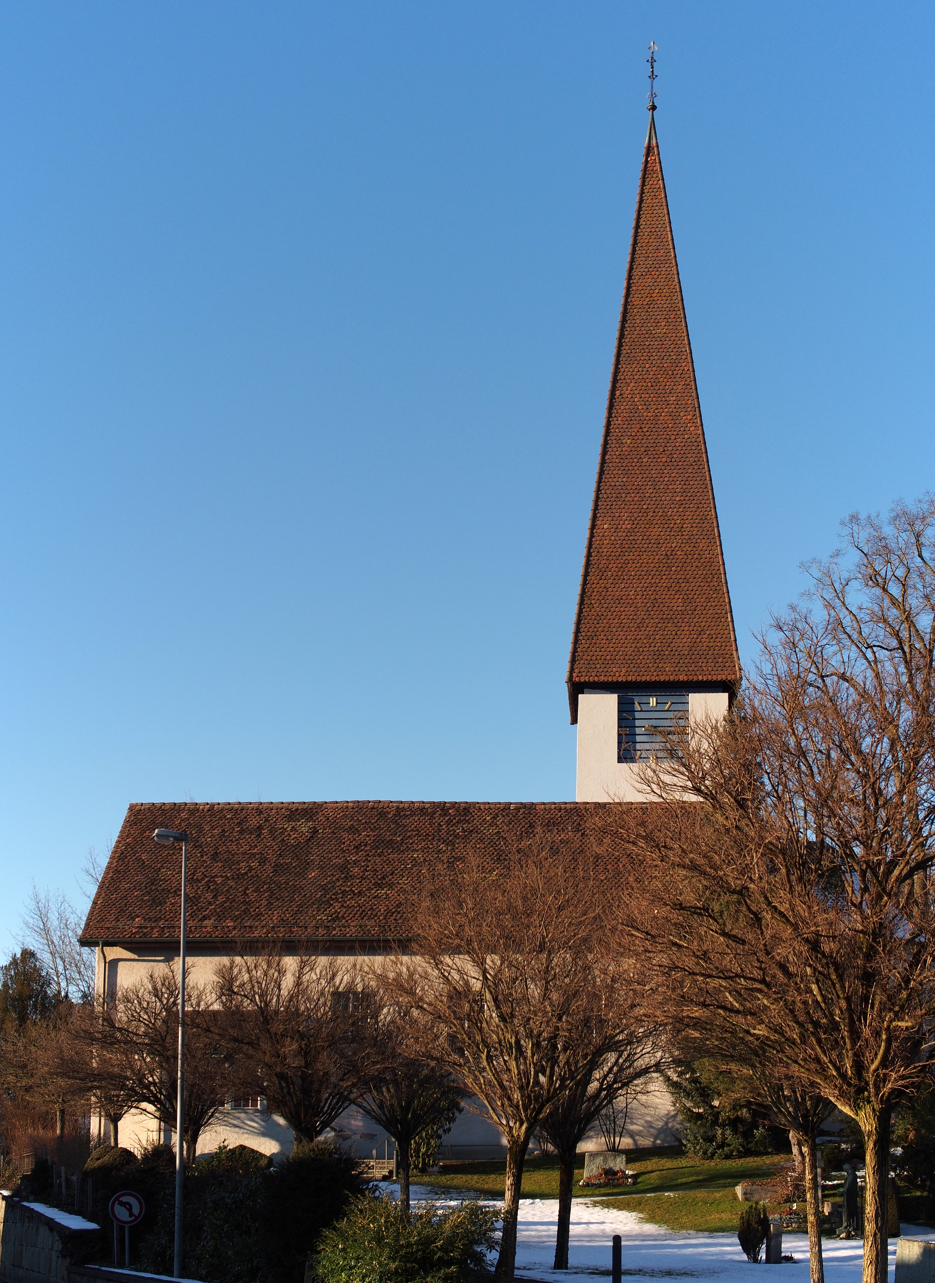 The protestant church of Muri bei Bern, Switzerland. View from SE, from the Thunstrasse.